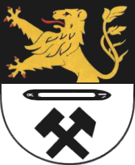 Coat of arms of Ronneburg (Thüringen)